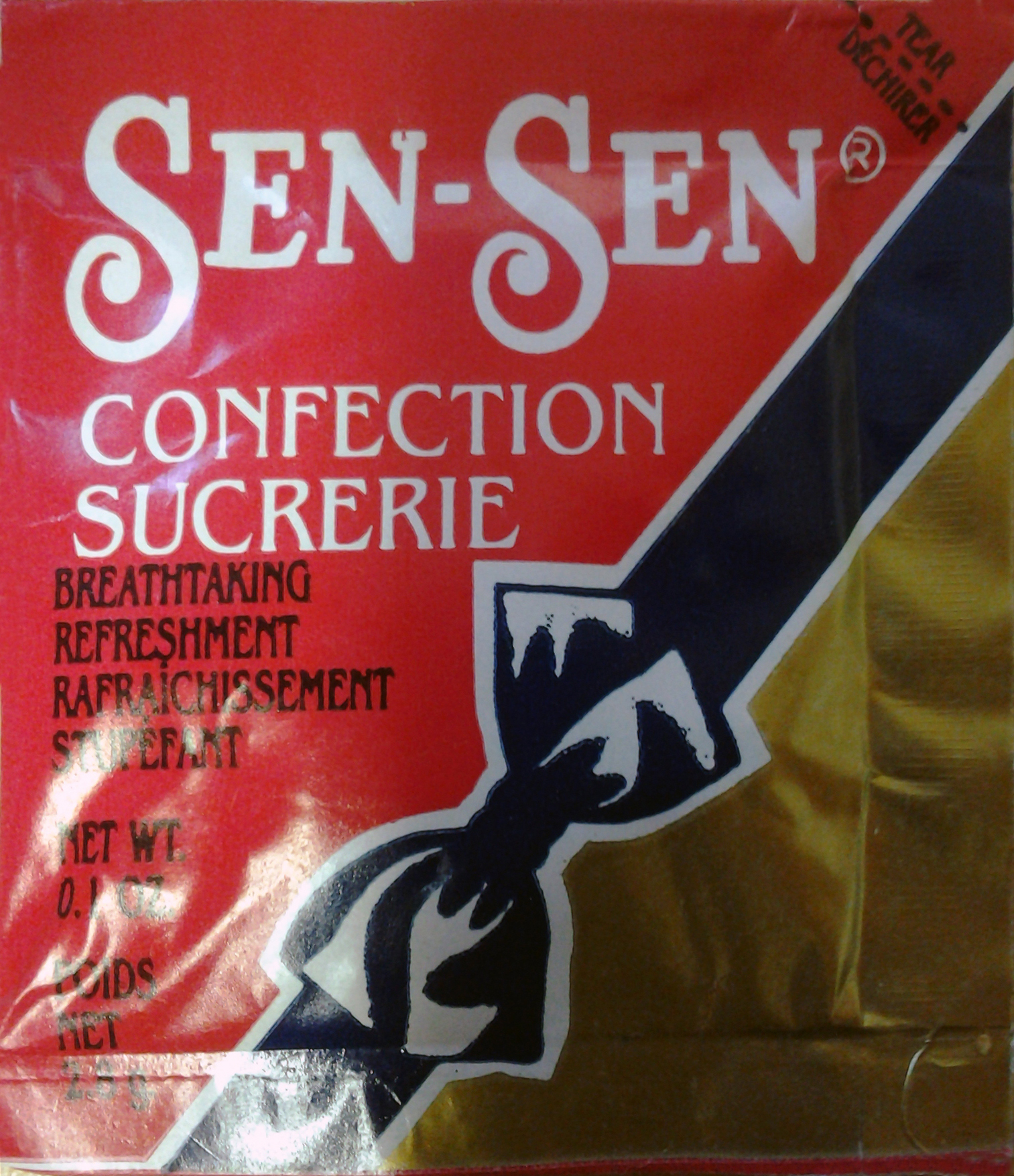 Photograph of a Sen-Sen package.